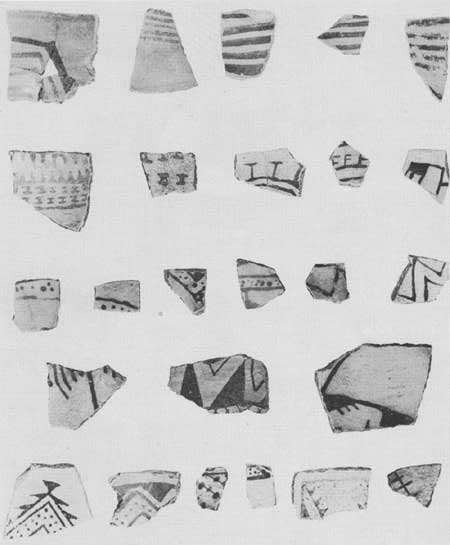 Mesa Verde National Park Basketmaker III - Pueblo I Decorated Bowl Sherds. Source National Park Service